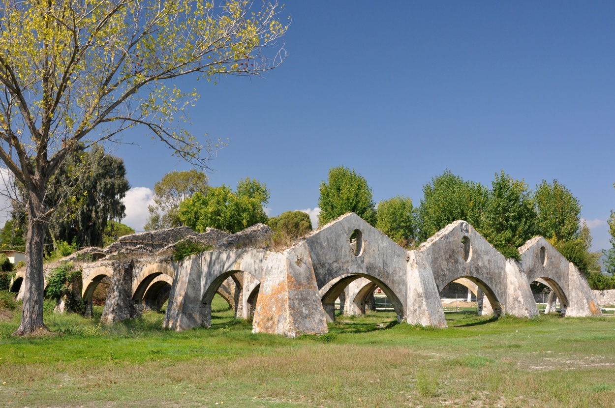 The Venetian Shipyard in Gouvia, Corfu. Gouvia Village is set on a natural bay, 8 kilometres north of Corfu Town, on the east coast of the island. In the 17th century Venetian seamen selected the area of Gouvia as an ideal location for creating a naval base. They built at the entrance of the bay, in Kommeno a small fort, known by the inhabitants of Gouvia as the Fort of Scarpa. Some remains of the towers still exist in a private property. In 1716 Venetians built a shipyard on the shore of the lagoon at Gouvia. The building was used for general maintenance and repairs of their war galleys in station or passing through Corfu. The structure has survived with its walls, pillars and archways almost complete. Only roof is entirely missing. The columns and vaults which remain today stand as a reminder of those long-gone years when the Most Serene Republic of Venice ruled the Mediterranean Sea.